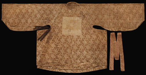 coat of Yun Seoneun, elder brother of Yun Seondo